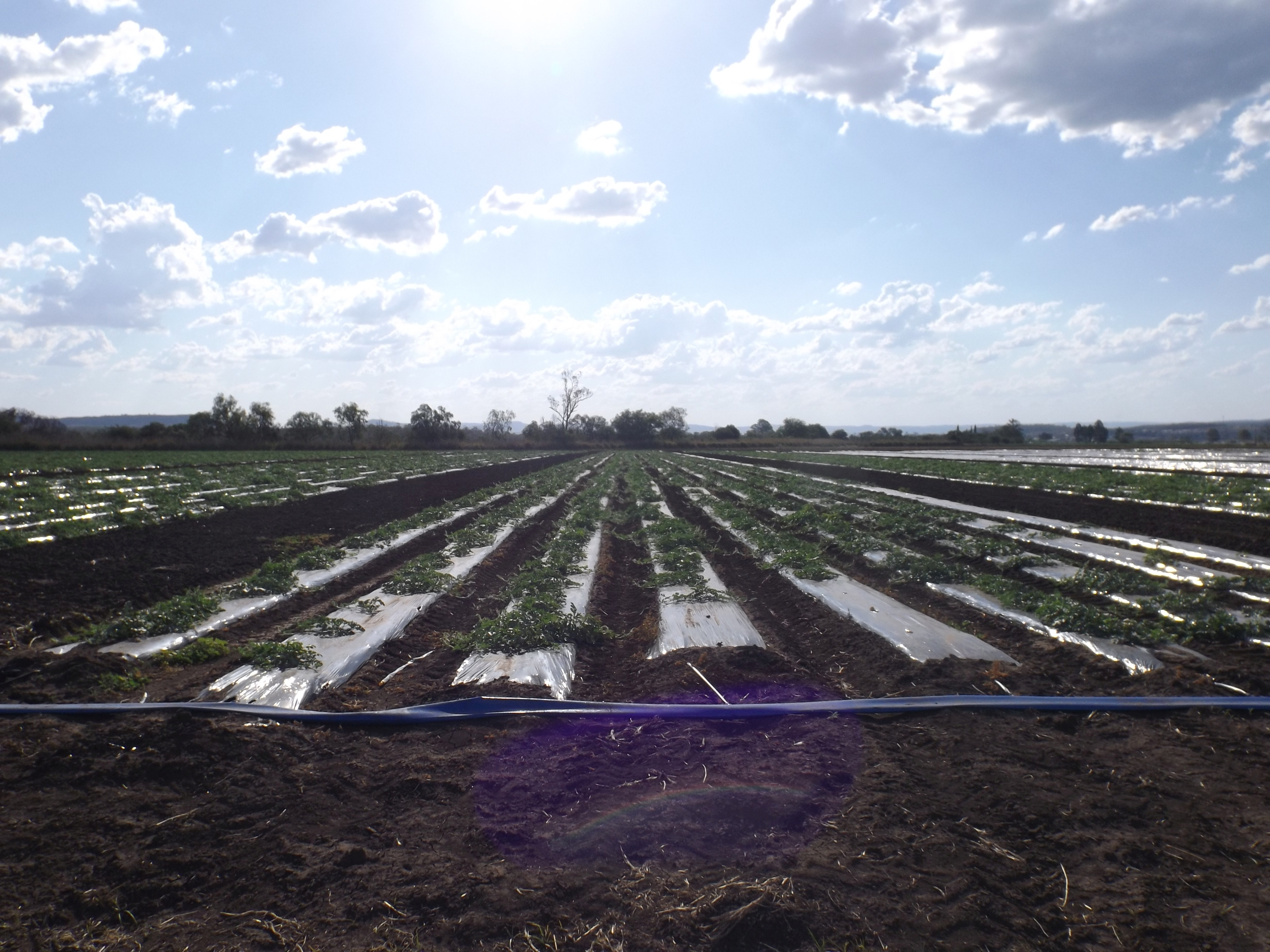 Photo of crops at Lower Tenthill, Queensland, Australia.